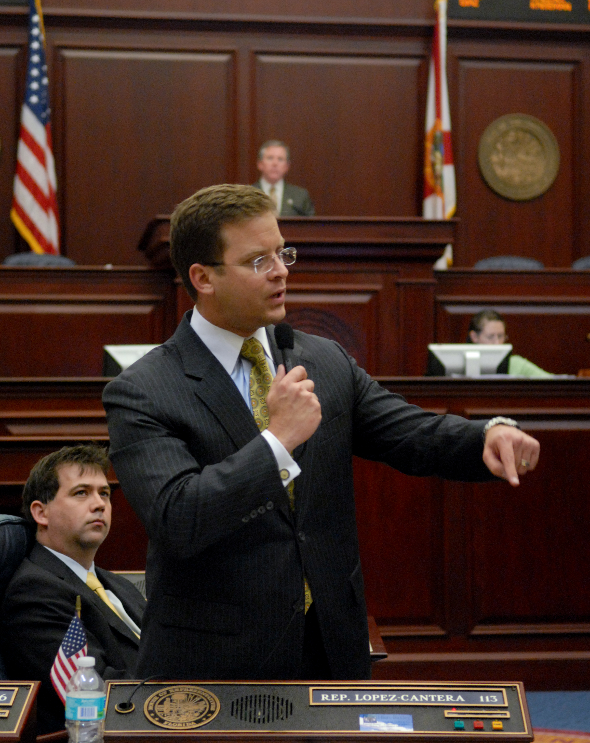 Majority Leader Representative Carlos Lopez-Cantera, R-Miami, offering favorable remarks promoting the House budget.